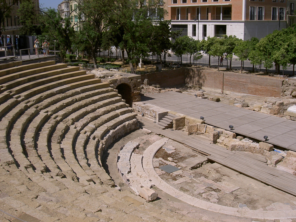 Ancient Roman Theater in Málaga, Spain